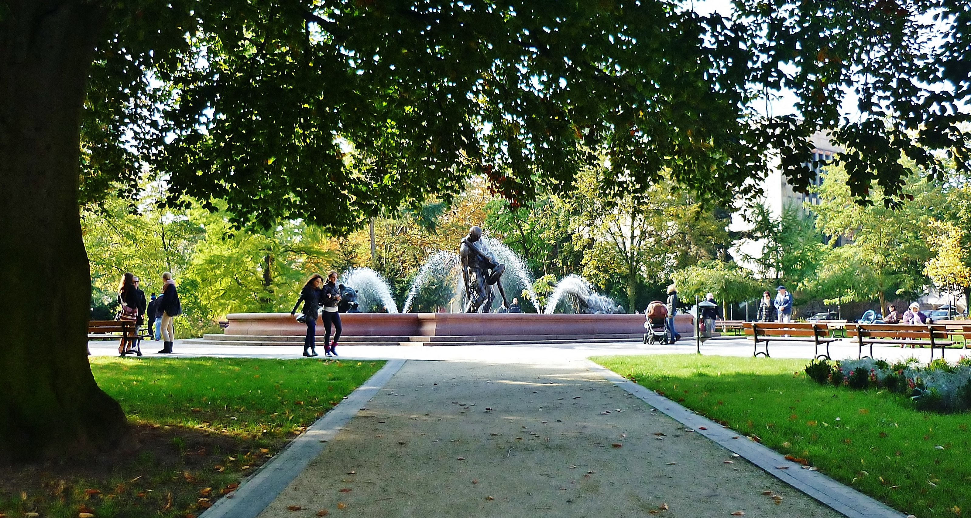 "The Deluge" fountain, partialy reconstructed, Bydgoszcz, Kuyavian-Pomeranian Voivodeship, Poland